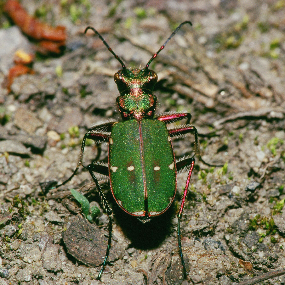 Cicindela campestris sitting on ground in sunlight